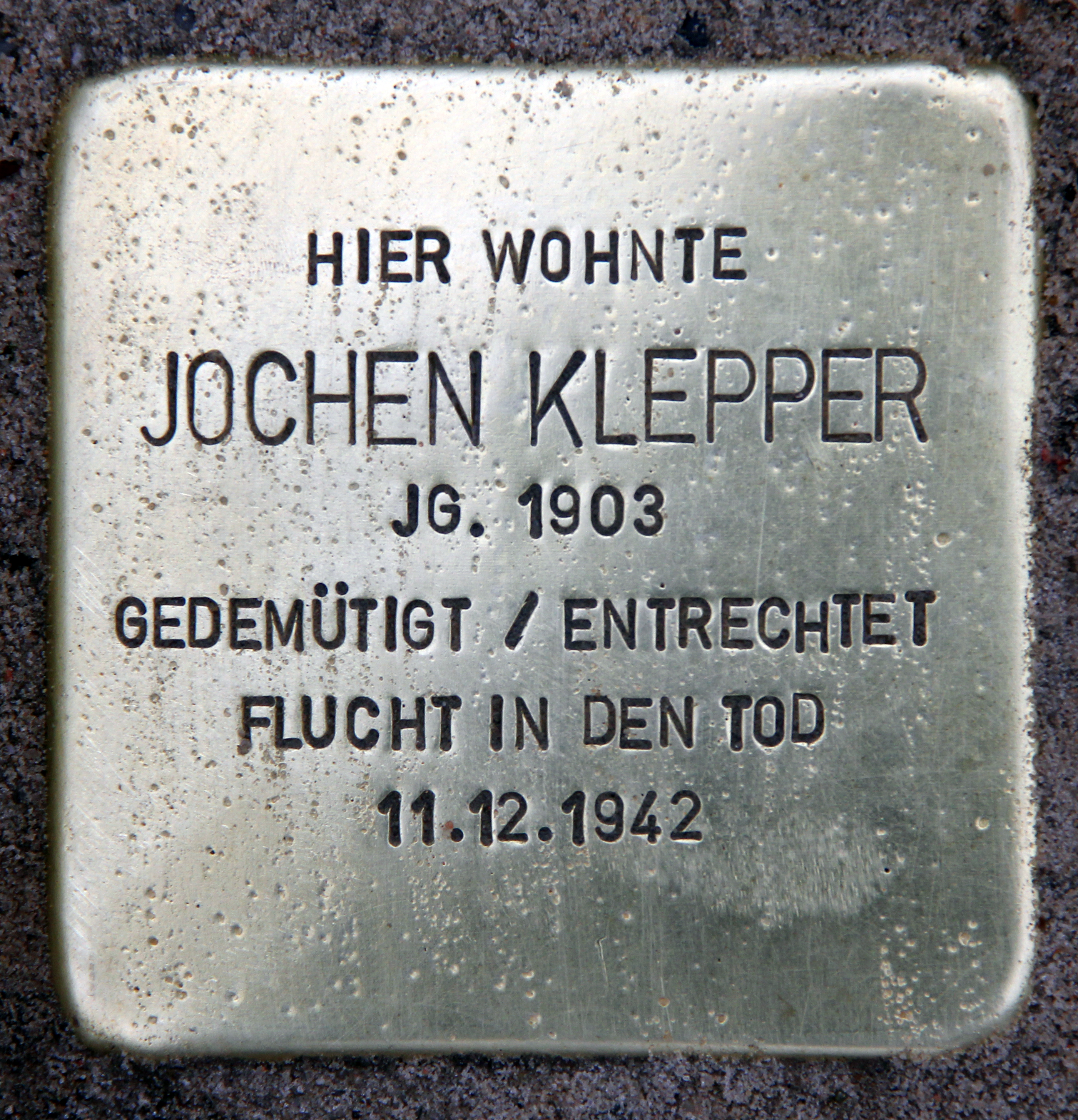 "Stolperstein" (stumbling block), Jochen Klepper, Teutonenstraße 23, Berlin-Nikolassee, Germany